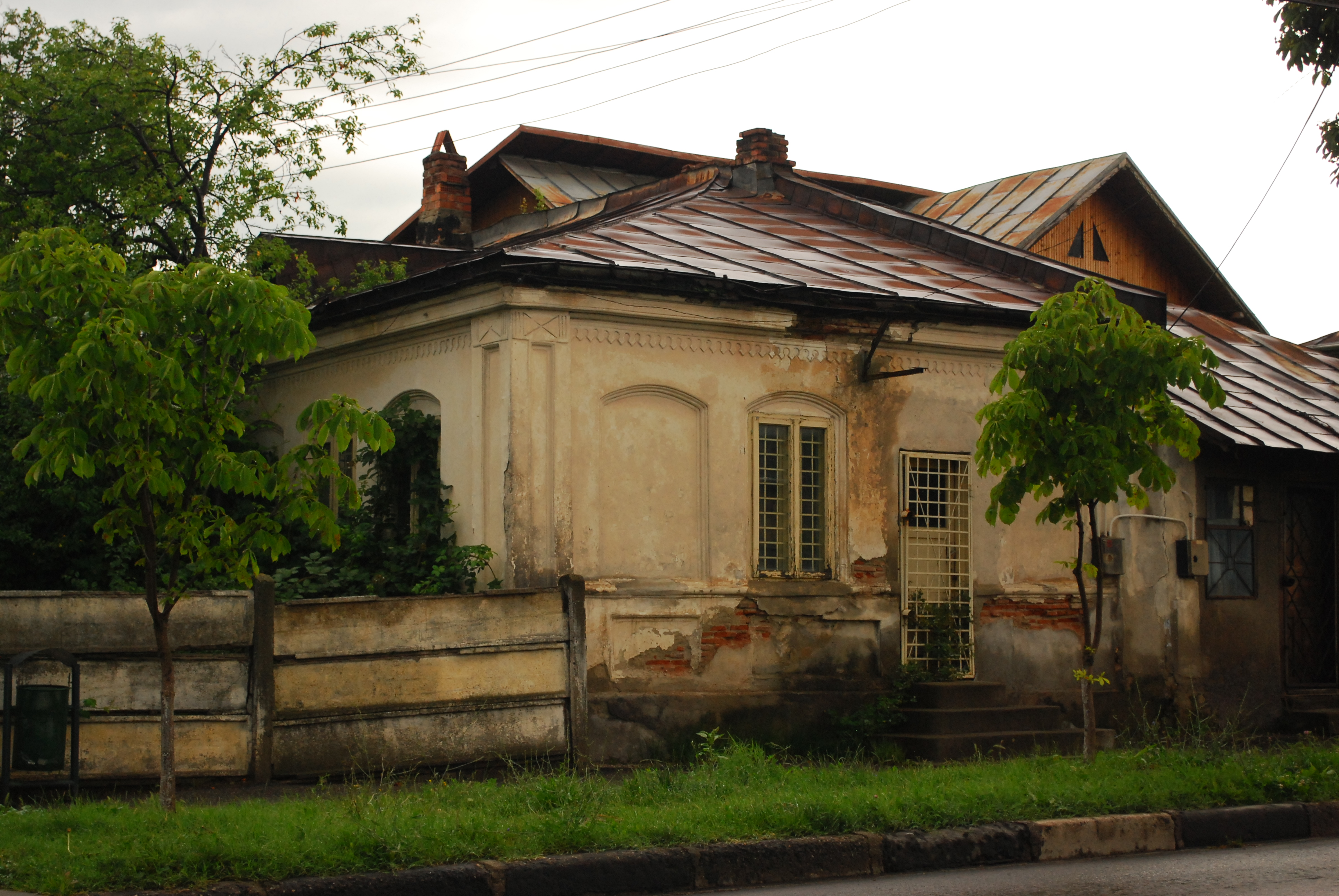 Dănilă Veroniu merchant house in Vălenii de Munte, Prahova County, RomaniaRomână: Casa de negustor Dănilă Veroniu din Vălenii de Munte, județul Prahova, România